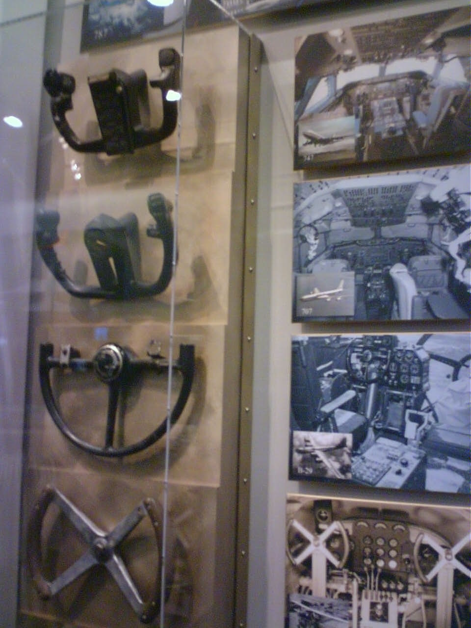 Collection of yokes, arranged in order of age, newest at the top. Boeing 747 (1969), Boeing 707 (1958), B-29 (1940s) and Ford Trimotor (1930s) at Future of Flight Museum Everett, WA